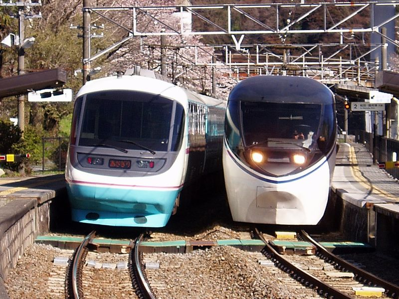 Limited Express "Asagiri" trains at Yaga Station. (Left: Odakyu 20000 series "RSE" EMU; Right: JR Central 371 series EMU)